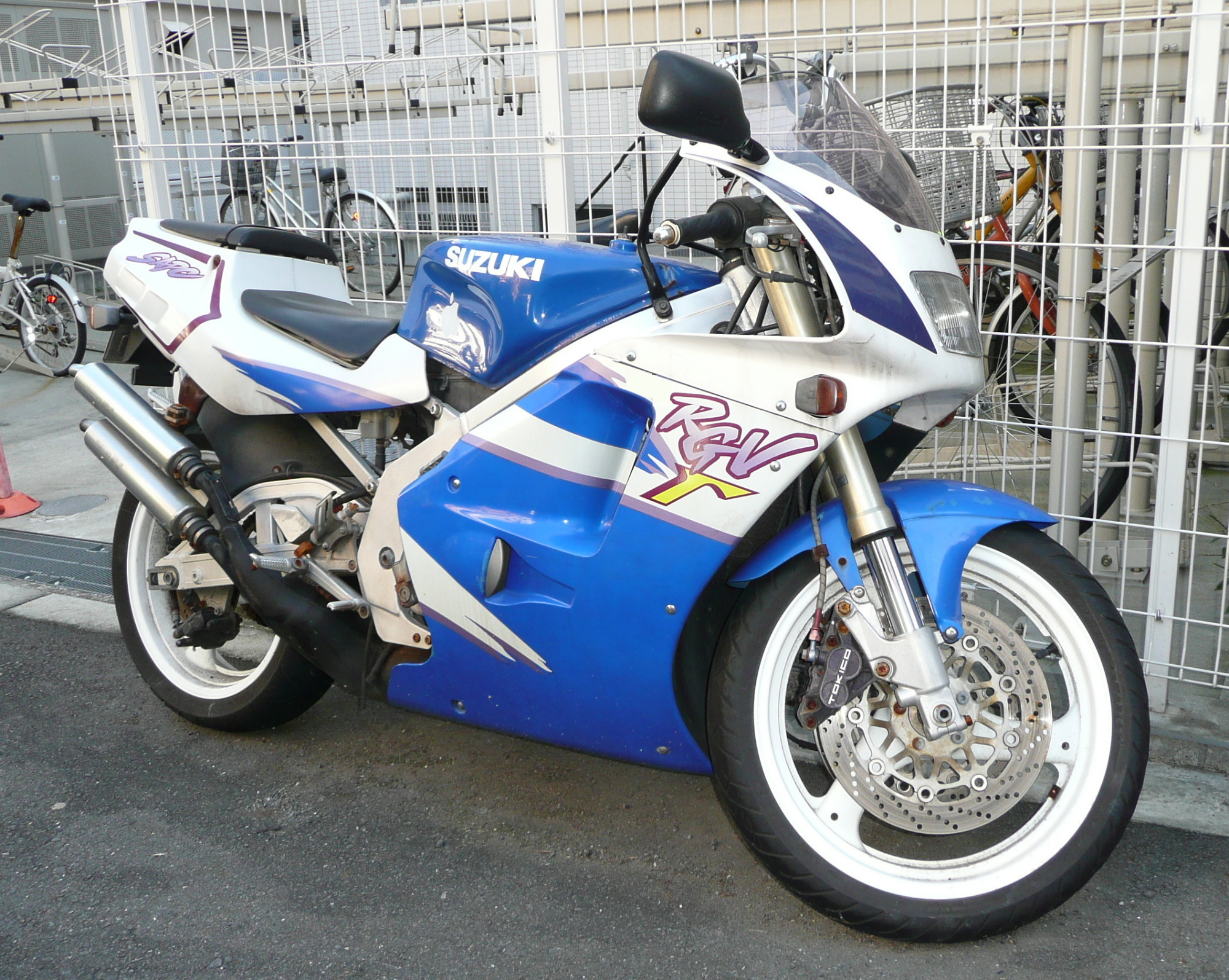 The side view of Suzuki RGV250Γ(VJ22A).